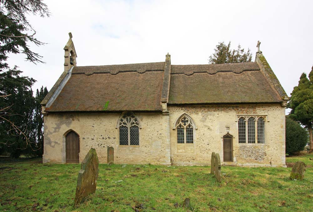 St Mary, Barton Bendish, Norfolk